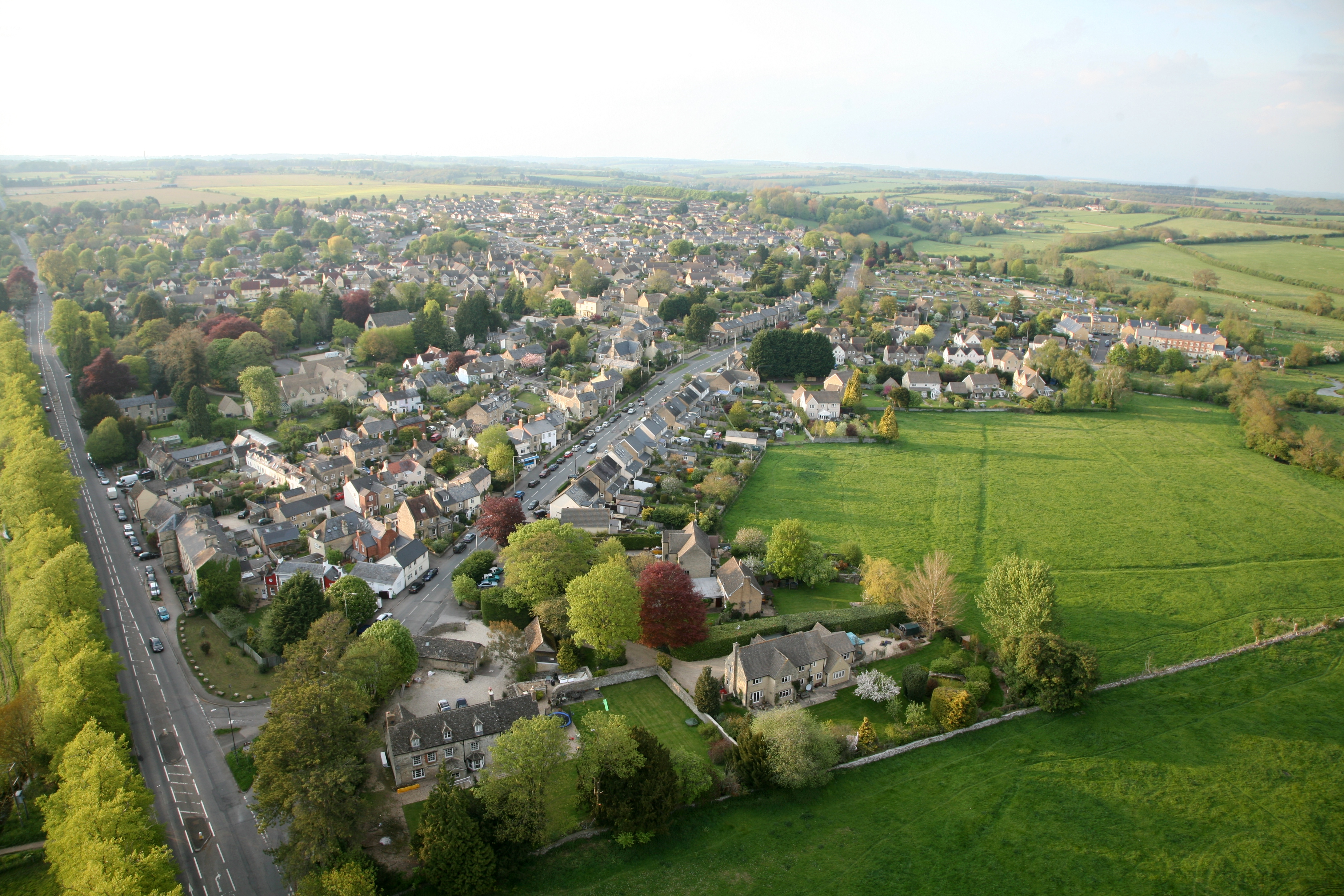 Aerial view of the town of Cirencester in Gloucestershire, England.